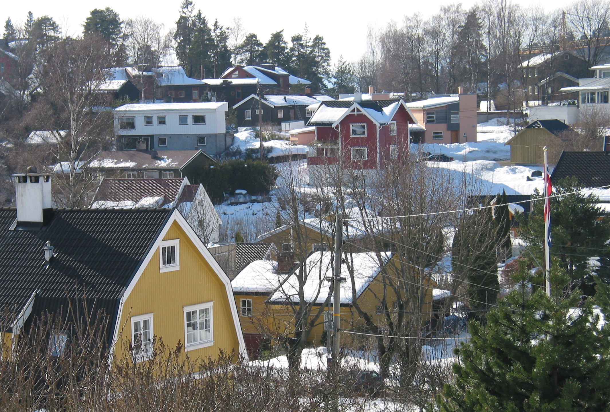 View of the residential area at Sollerud. I was standing 50 metres east of Sollerud station, looking south.